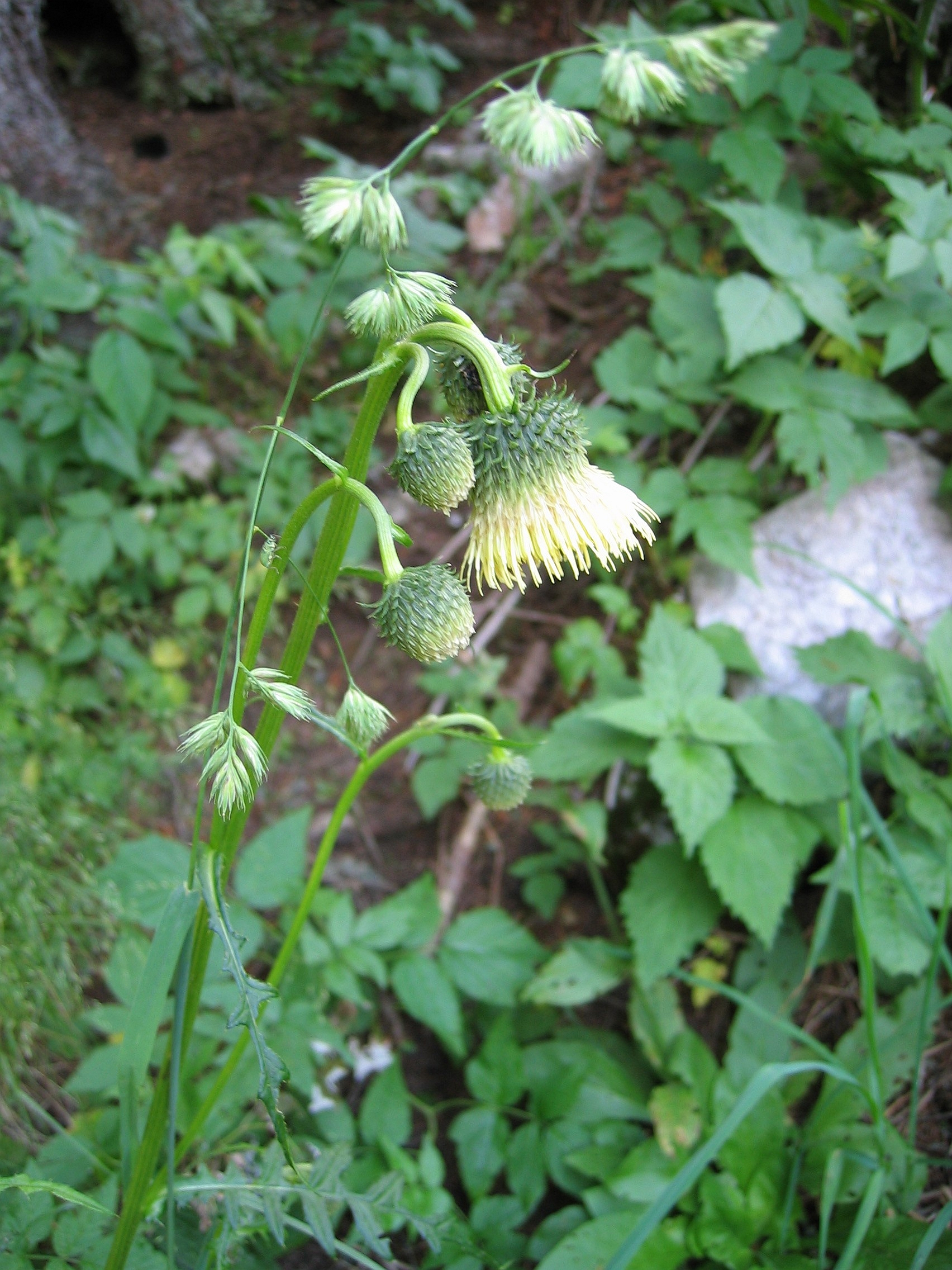 Cirsium erisithales, Near Hofalm, Upper Austria, Austria